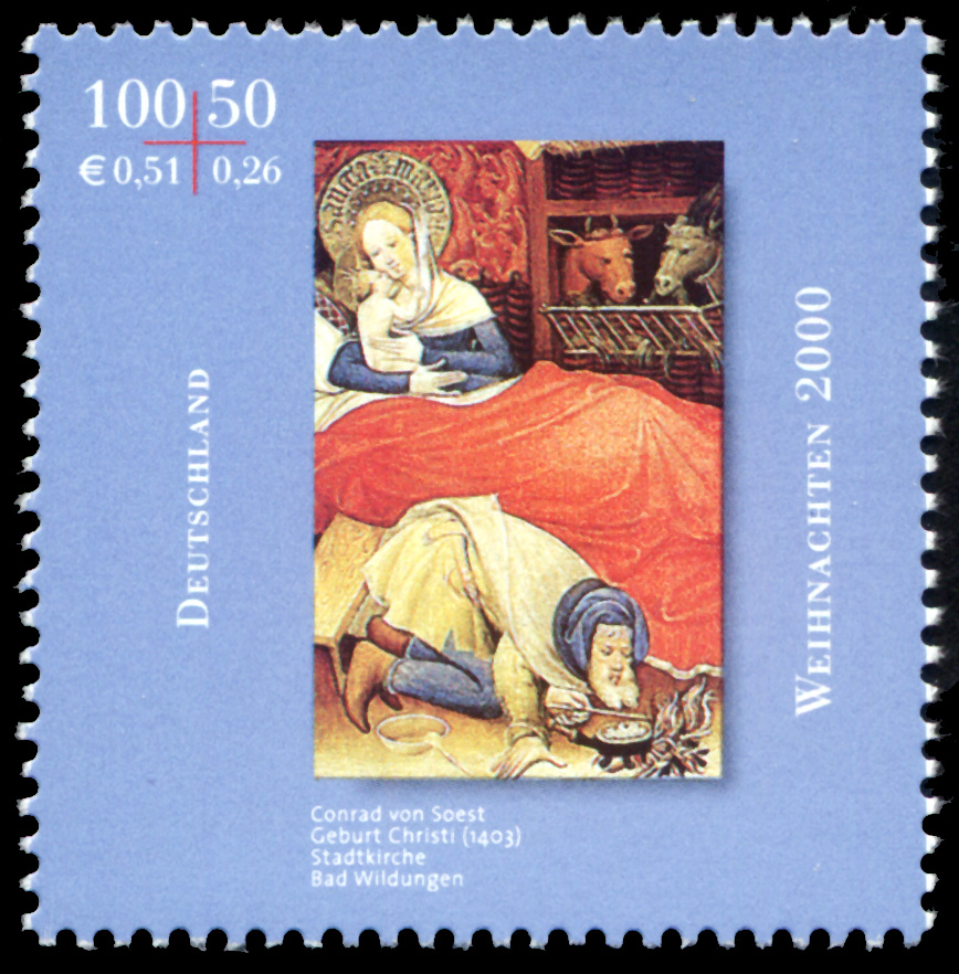 Stamp from Deutsche Post AG from 2000, Christmas, painting by Conrad von Soest